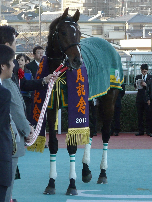 Rulership20101204